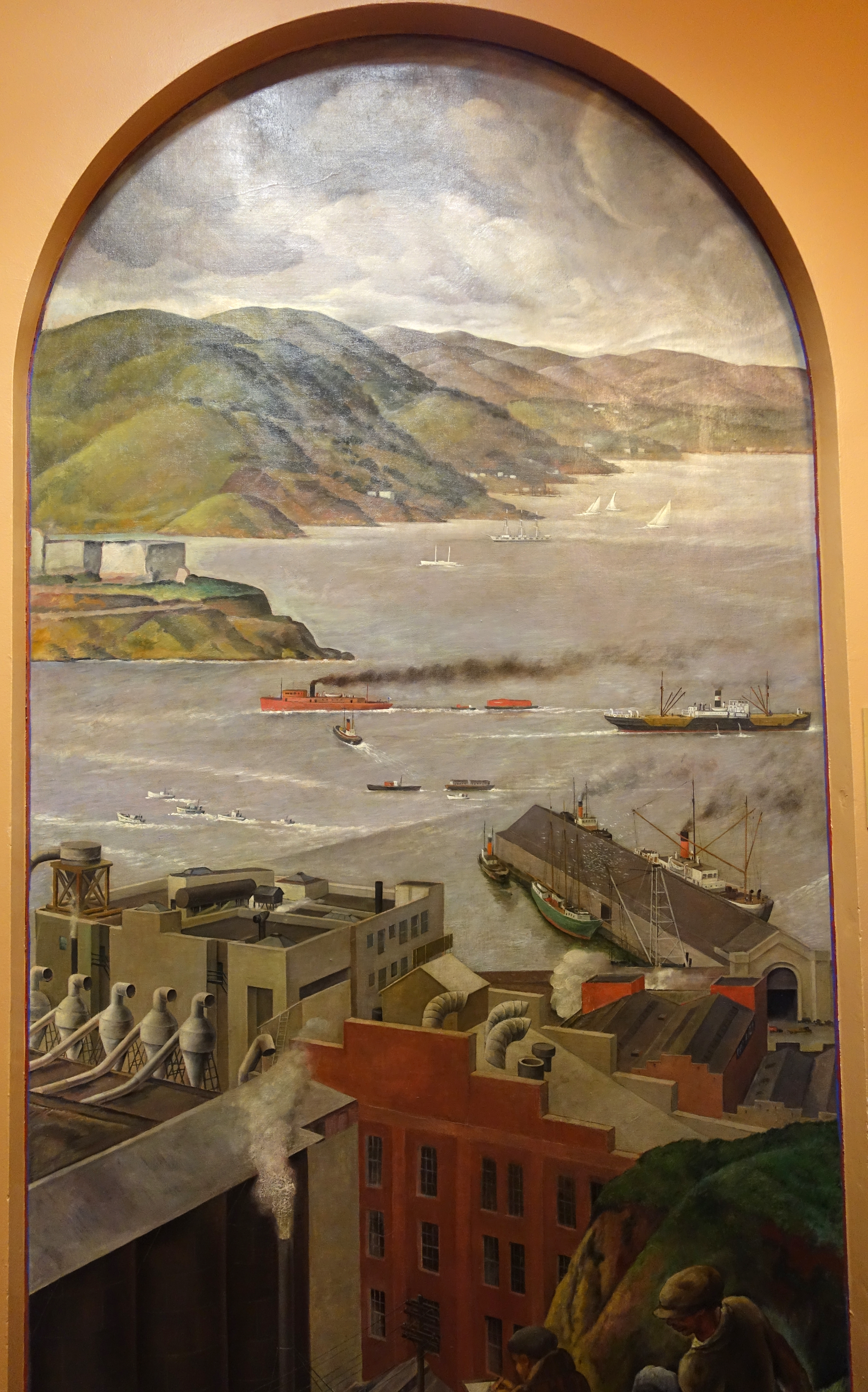 San Francisco Bay, North, by Jose Moya del Pino - Coit Tower, San Francisco, California, USA. This artwork is in the public domain because it was created by an employee of the United States Works Progress Administration.